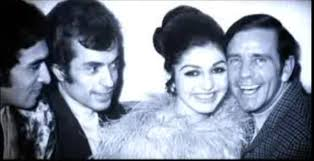 Norman Wisdom and Googoosh in Iran